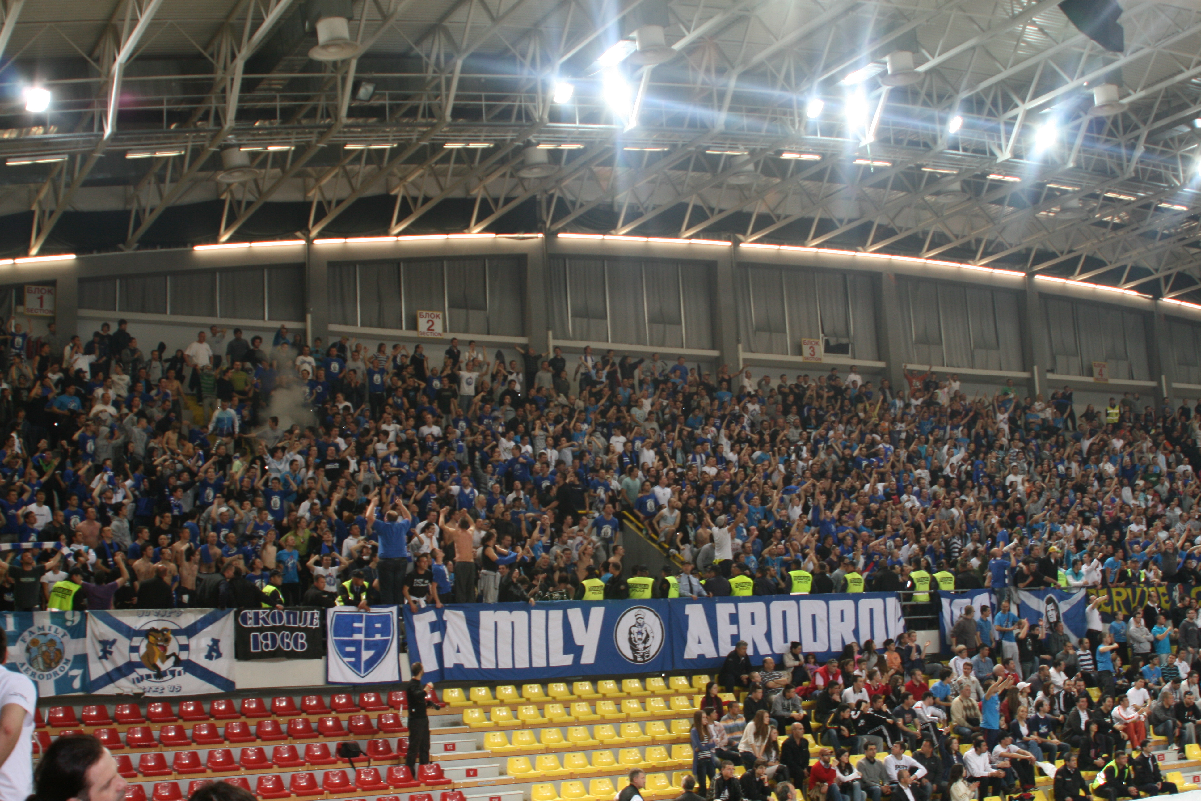 Фамилија